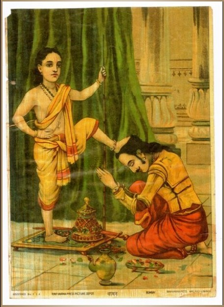 from baroda art gallery museum video screen shots